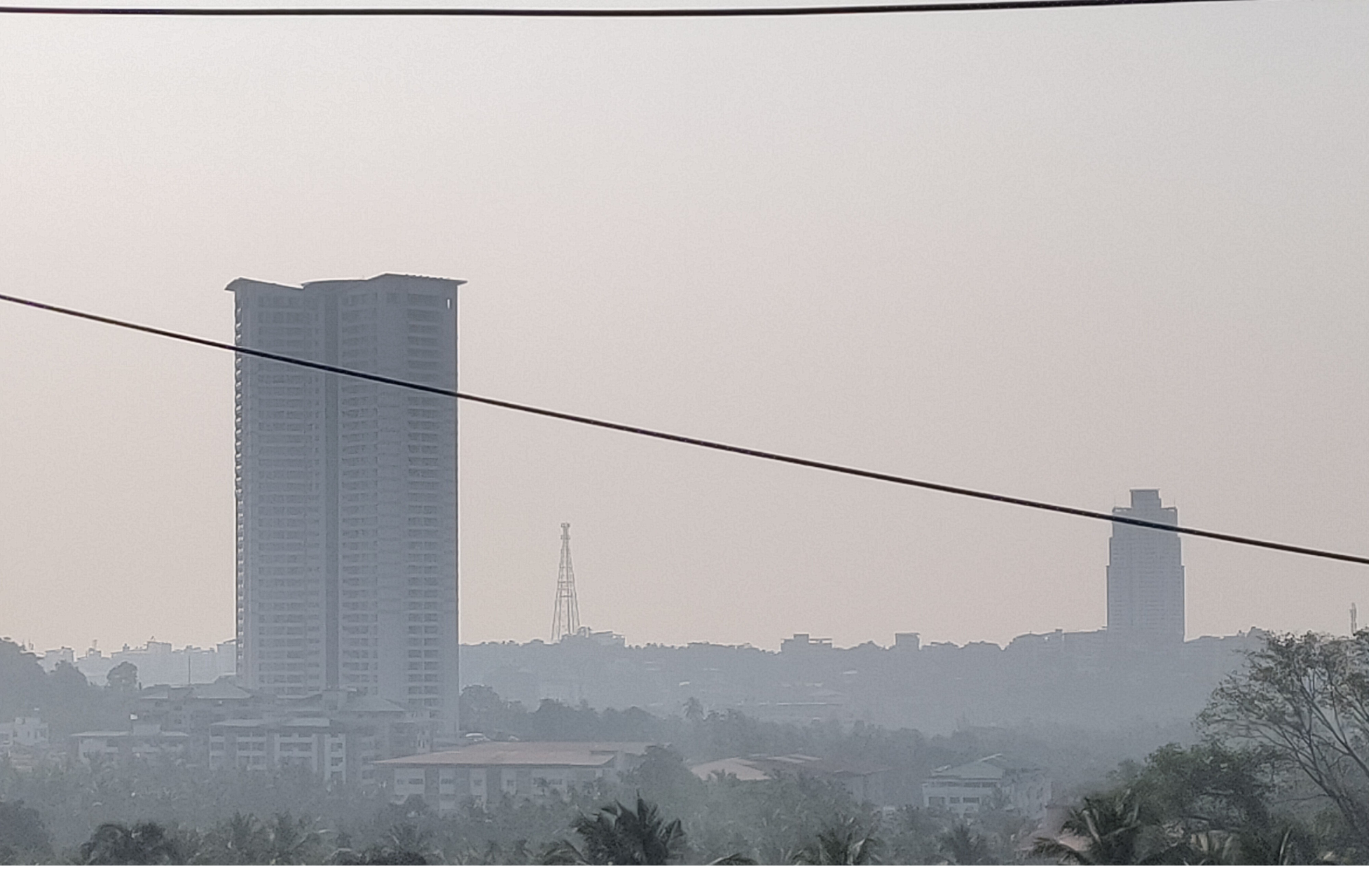 Mangalore CBD region highrise buildings, Airport road, Bondel, Mangalore